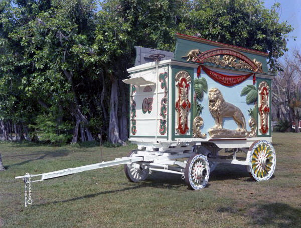 Note the wagon reads, "The Carl Hagenbeck Co. trained animal show". The "Lion Tableau" parade wagon, built in 1904, is one of many circus vehicles on display in the Ringling Museum of the Circus. For several years it was part of the Hagenbeck-Wallace Circus, and was purchased by John Ringling for Ringling Brothers and Barnum and Bailey in 1929. Its last public appearance was in 1964 at the New York World's Fair.